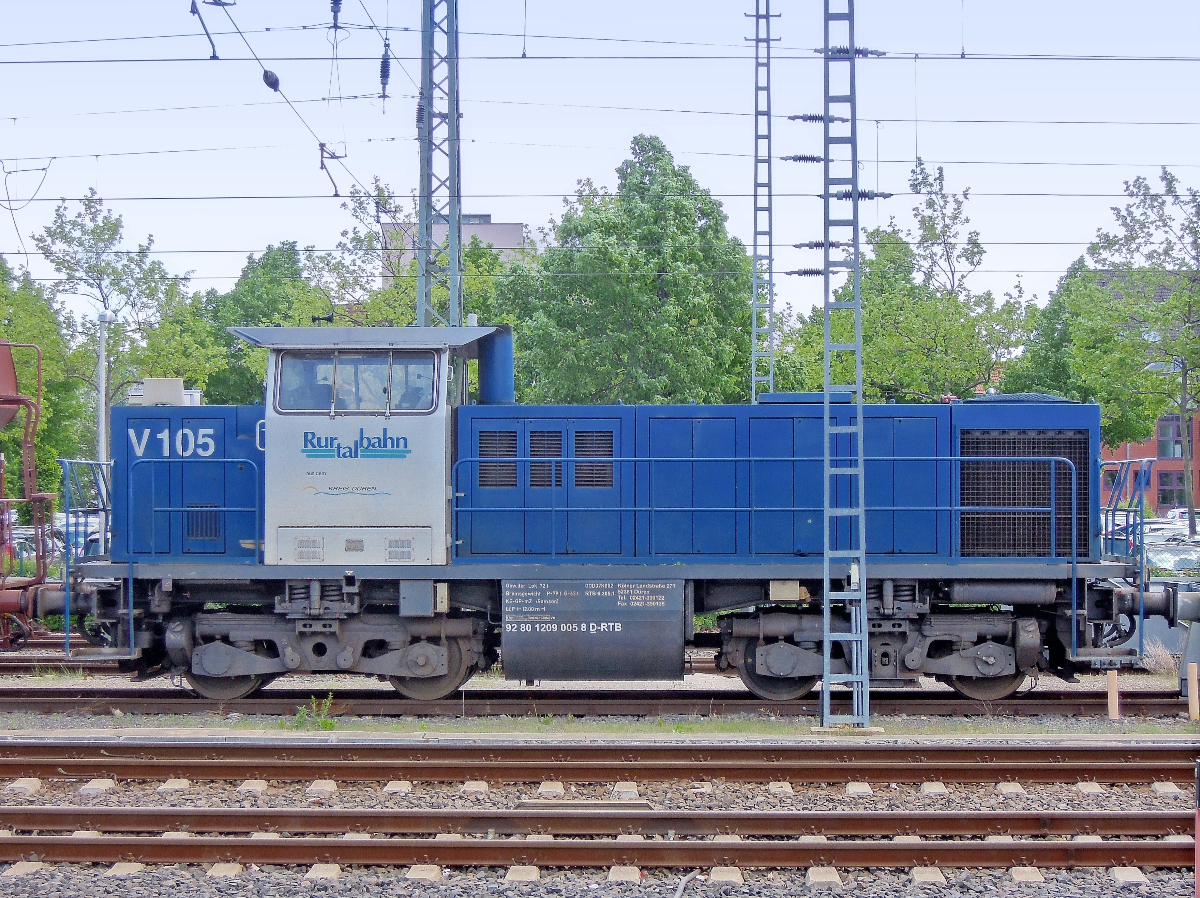 OnRail Diesel Locomotive owned by Dürener Kreisbahn at Düren Hauptbahnhof; rebuilt from V100